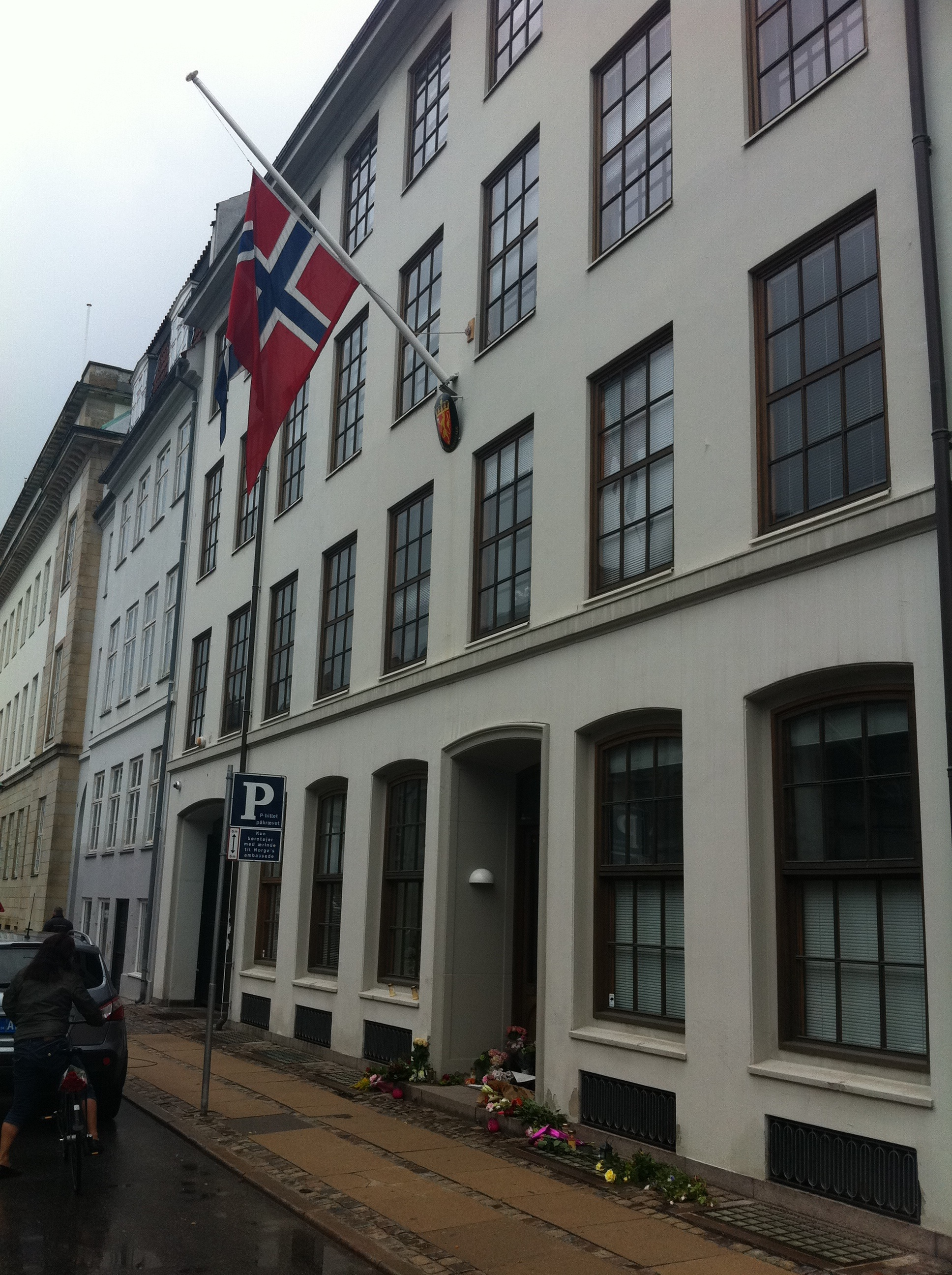 Norwegian embassy in Denmark after 2011 attacks